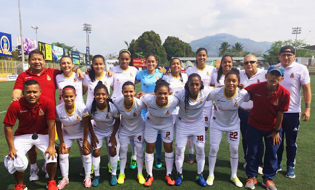 Deportes Tolima Femenino